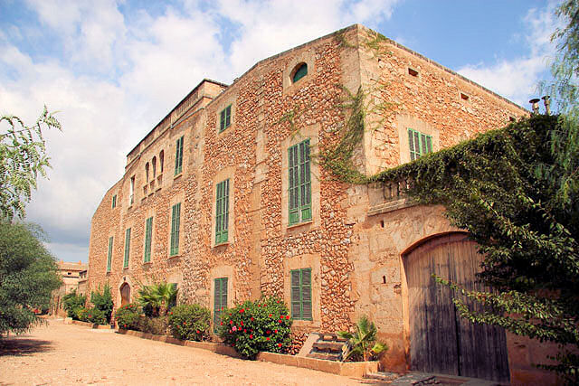 Estate Son Reus, at Palma, Majorca